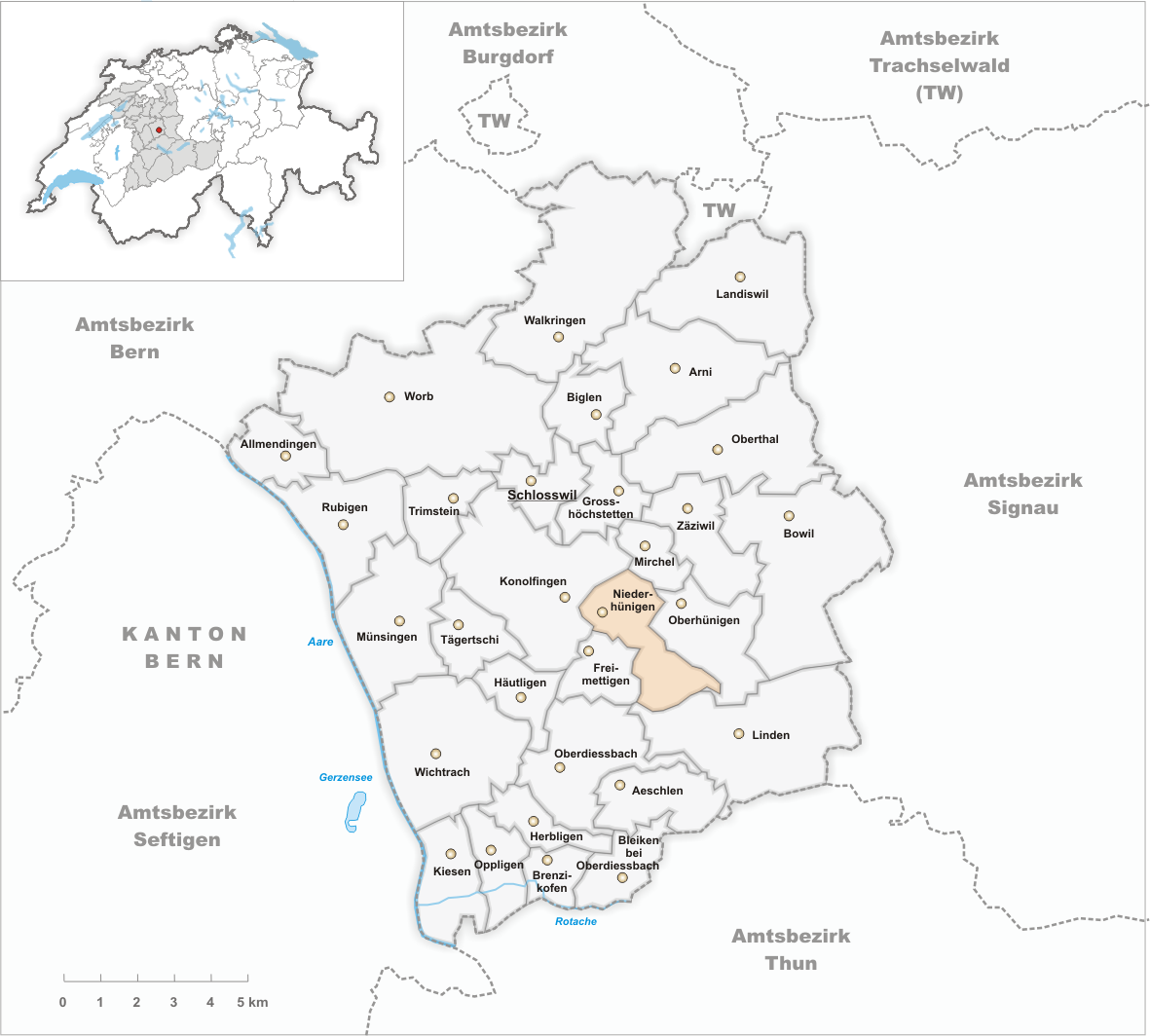 Municipality Niederhünigen